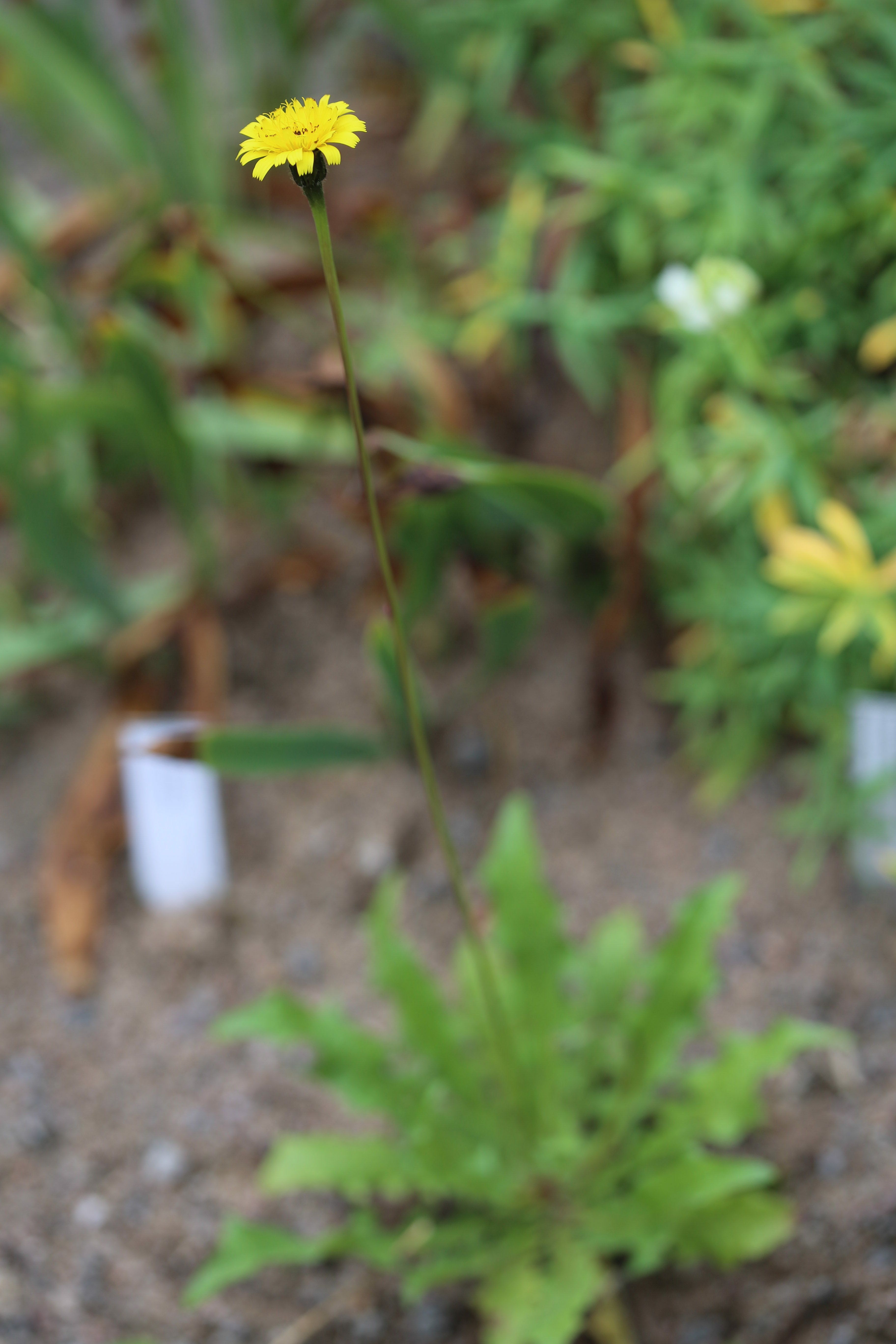 Leontodon caucasicus in Gothenburg Botanical Garden. Plant id: 2016-271 s Z -- GBT/NCE